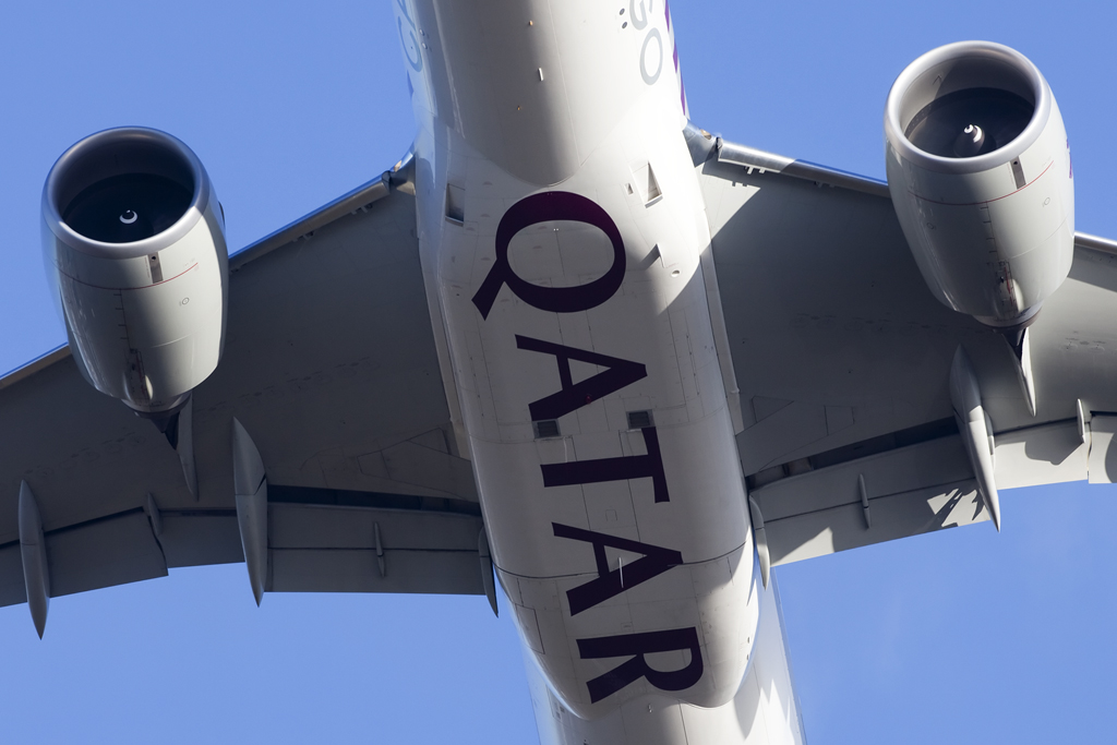 Schiphol